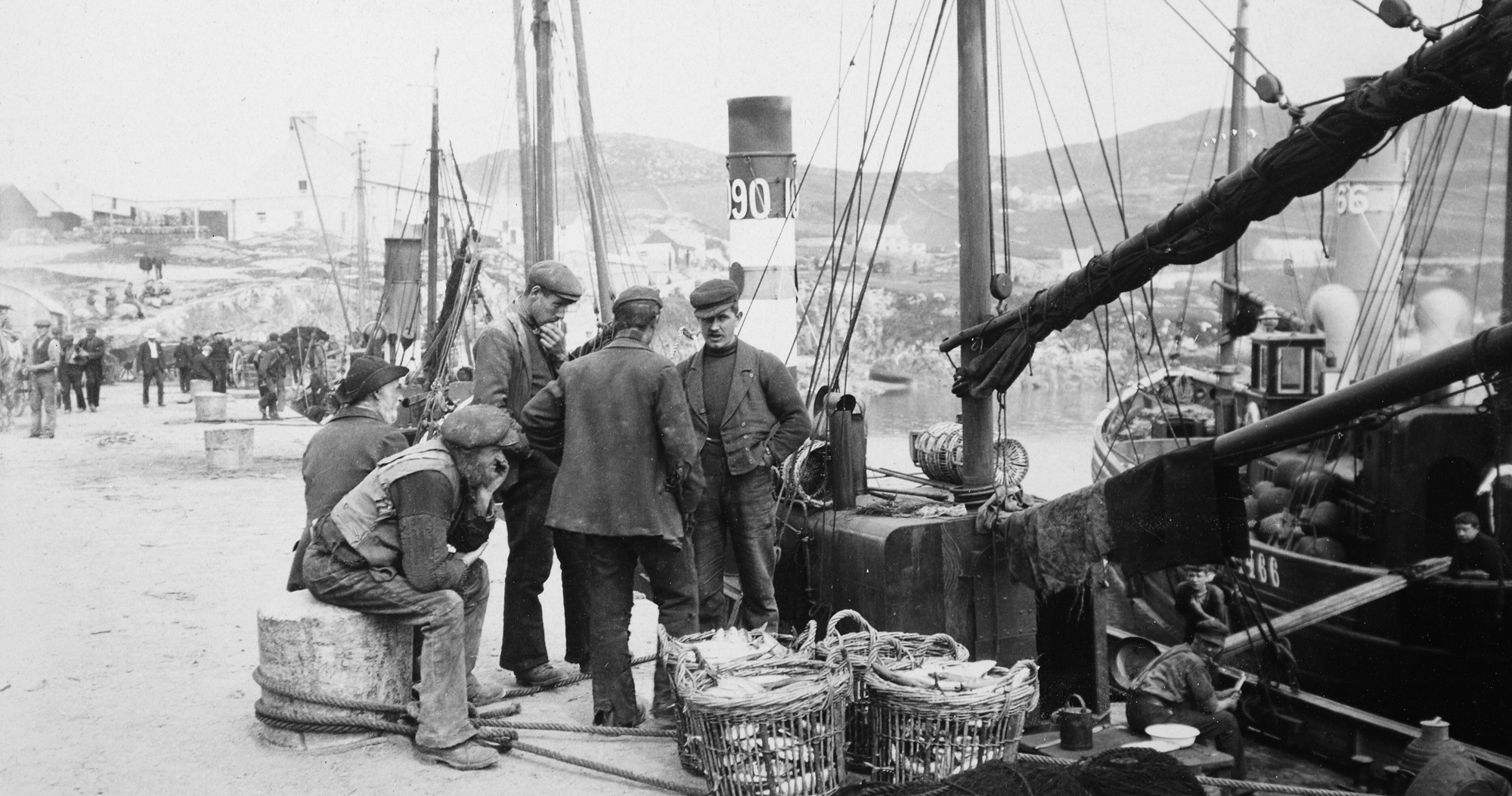 We've had photographs of quite a few old sea dogs at this stage, but none quite so salty as this bearded chap sitting on the mooring bollard! Date: Circa 1910 (but definitely between circa 1906 and 1914) NLI Ref.: CDB51